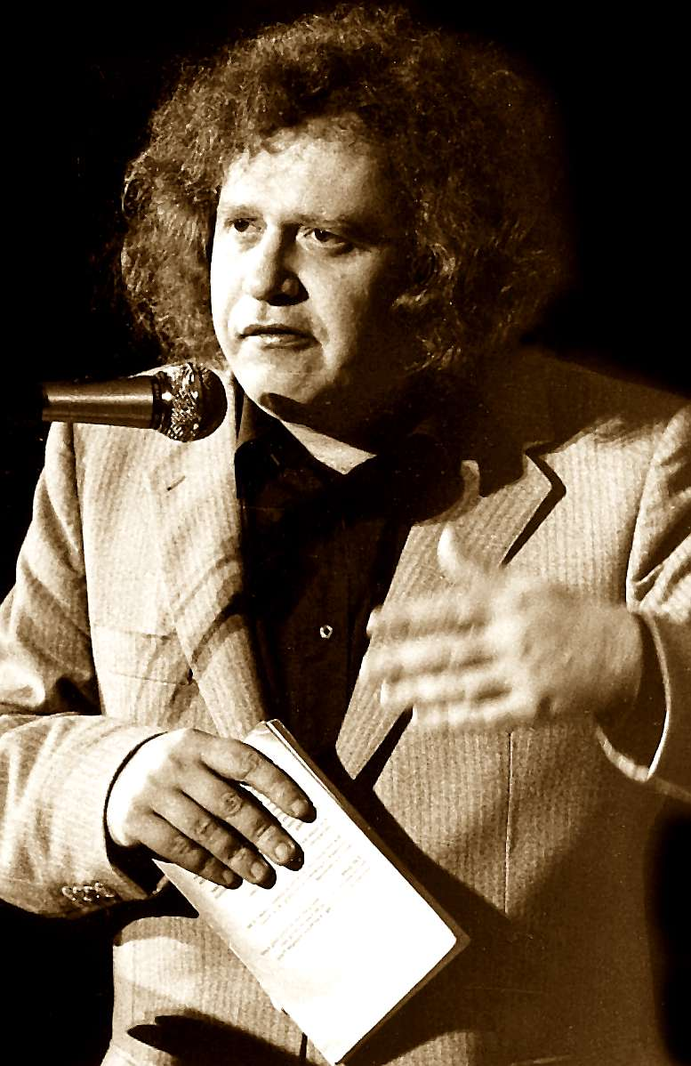 Portrait of Johnny ("the Selfkicker") van Doorn, Dutch writer & poet (1944-1991)